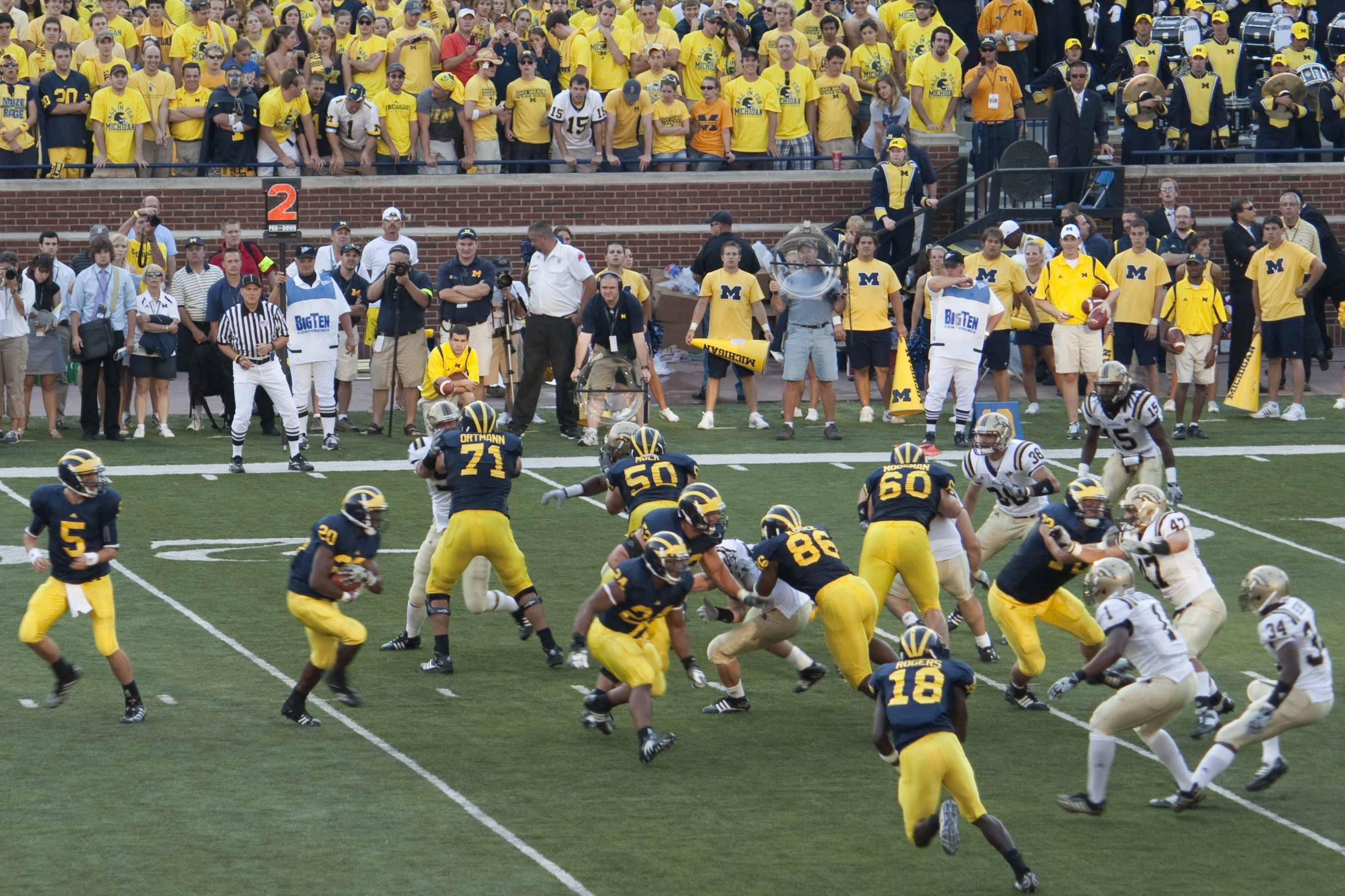 Michael Shaw (American football) rushing